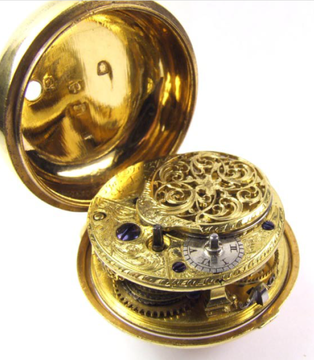 James Ivory pocket watch #109